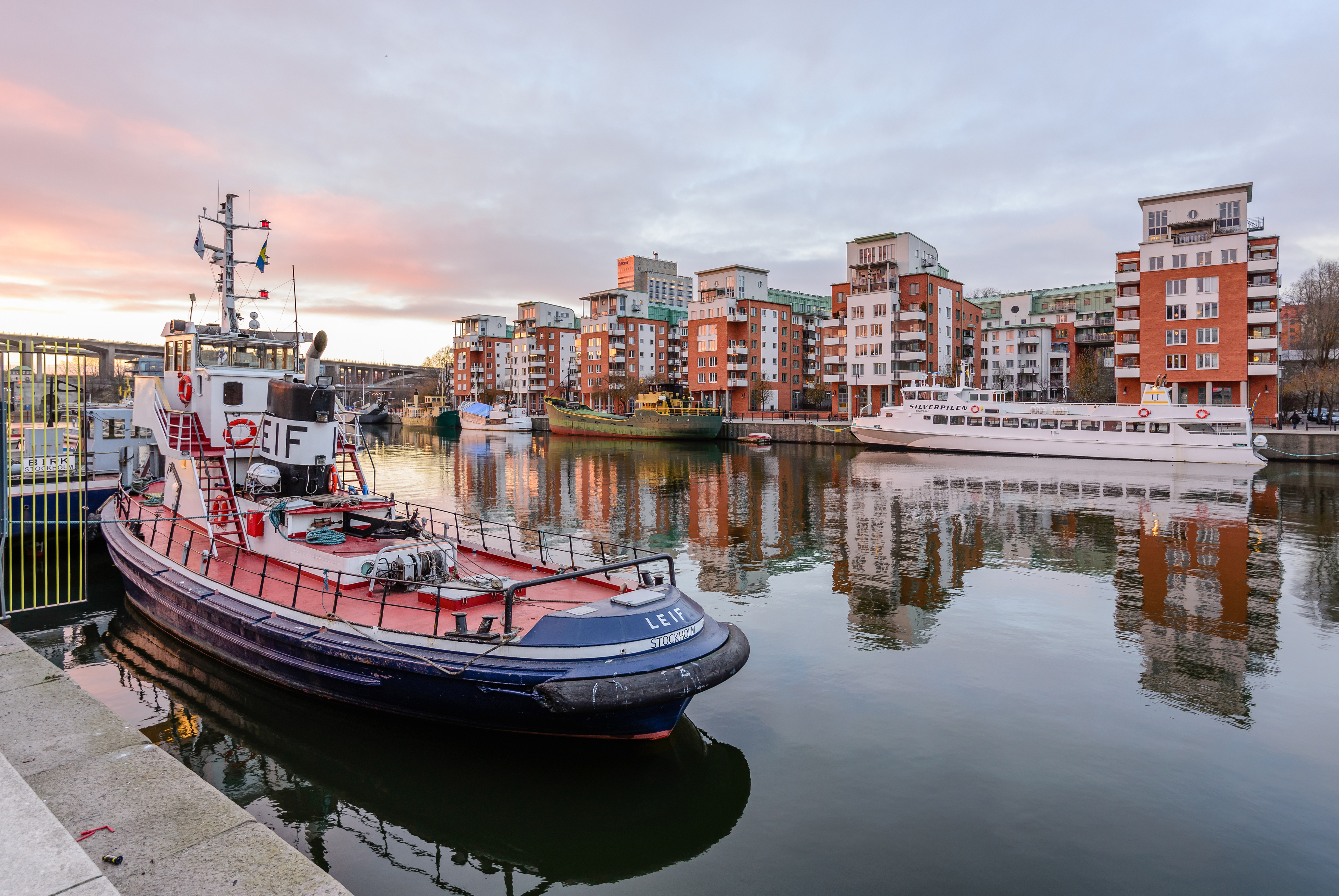 Tugboat Leif in Hammarbykanalen, Stockholm.